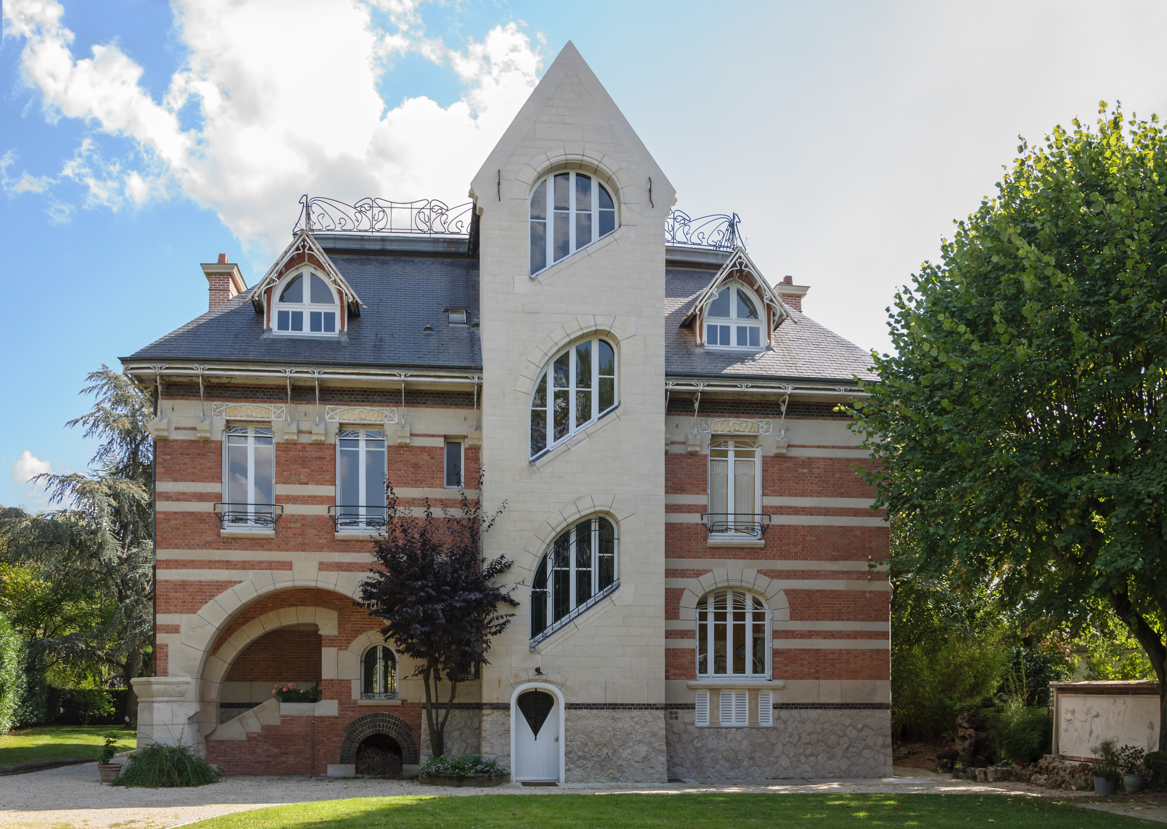 Villa Berthe, also known as La Hublotière, in Le Vésinet, Yvelines, France, work of the architect Hector Guimard. Rear facade. It is indexed in the Base Mérimée, a database of architectural heritage maintained by the French Ministry of Culture, under the references PA00087780 and IA00057533.